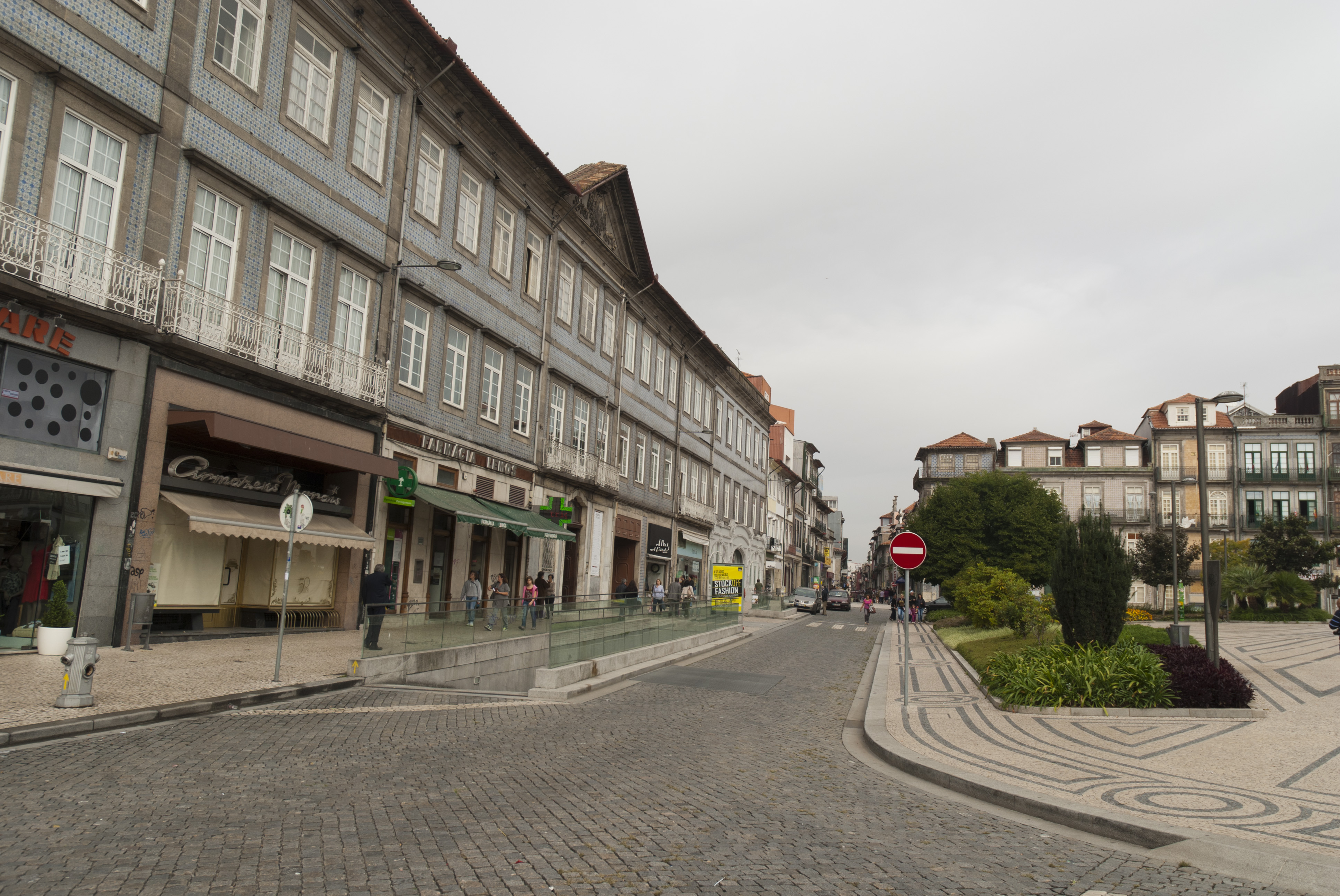 This file was uploaded for Wiki Loves Monuments in Portugal with the unique identifier 74768.